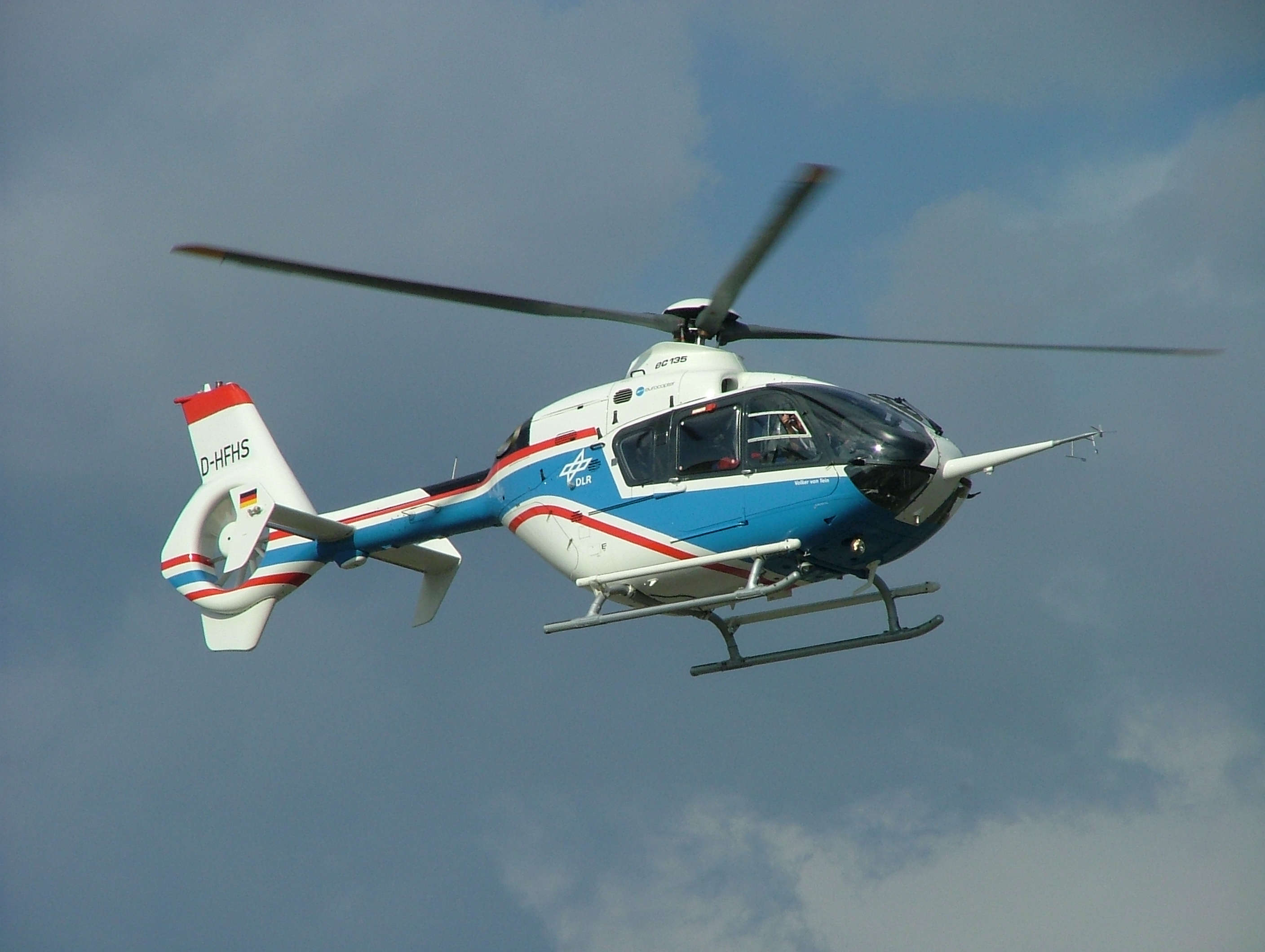 Flying Helicopter Simulator (FHS) German Aerospace Center